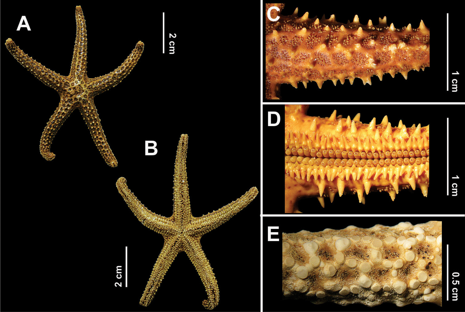 Echinaster (Othilia) brasiliensis A Abactinal view B Actinal view C Abactinal view of the arm D Actinal view of the arm E Arranjo do endoqesquelto do braço (Arrangement of the endoskeleton of the arm?)